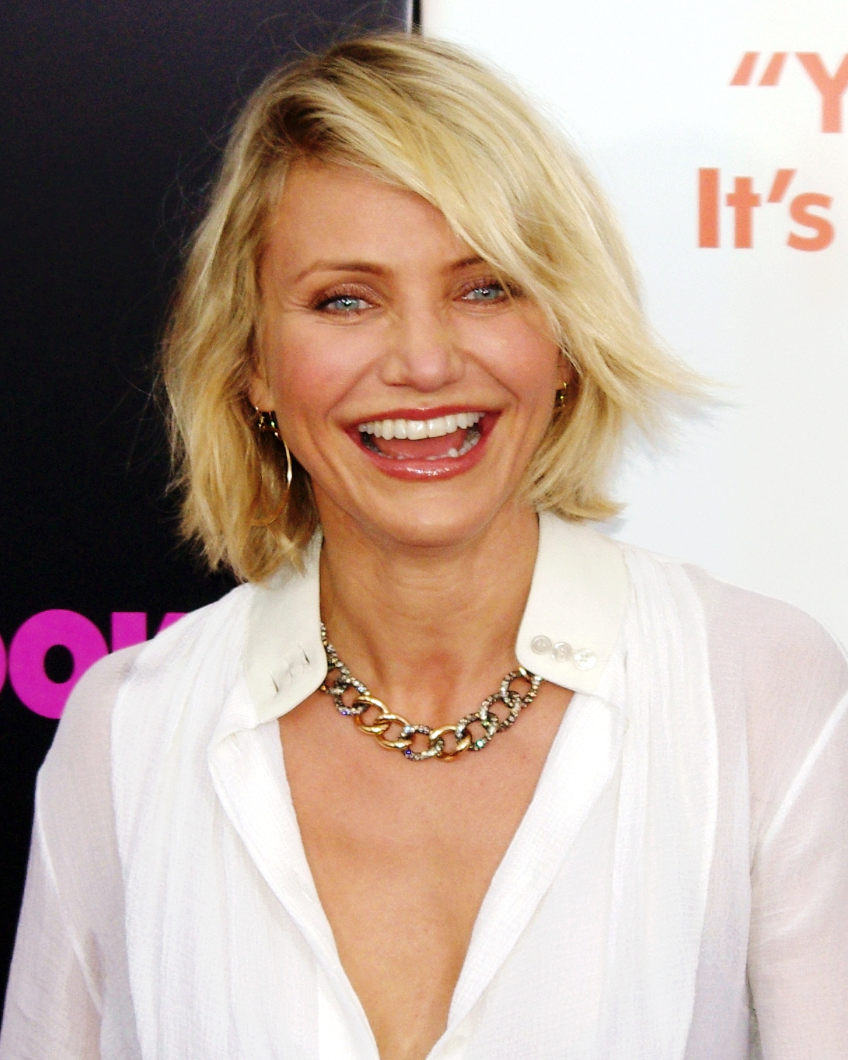 Cameron Diaz at the 2012 premiere of What to Expect When You're Expecting in New York